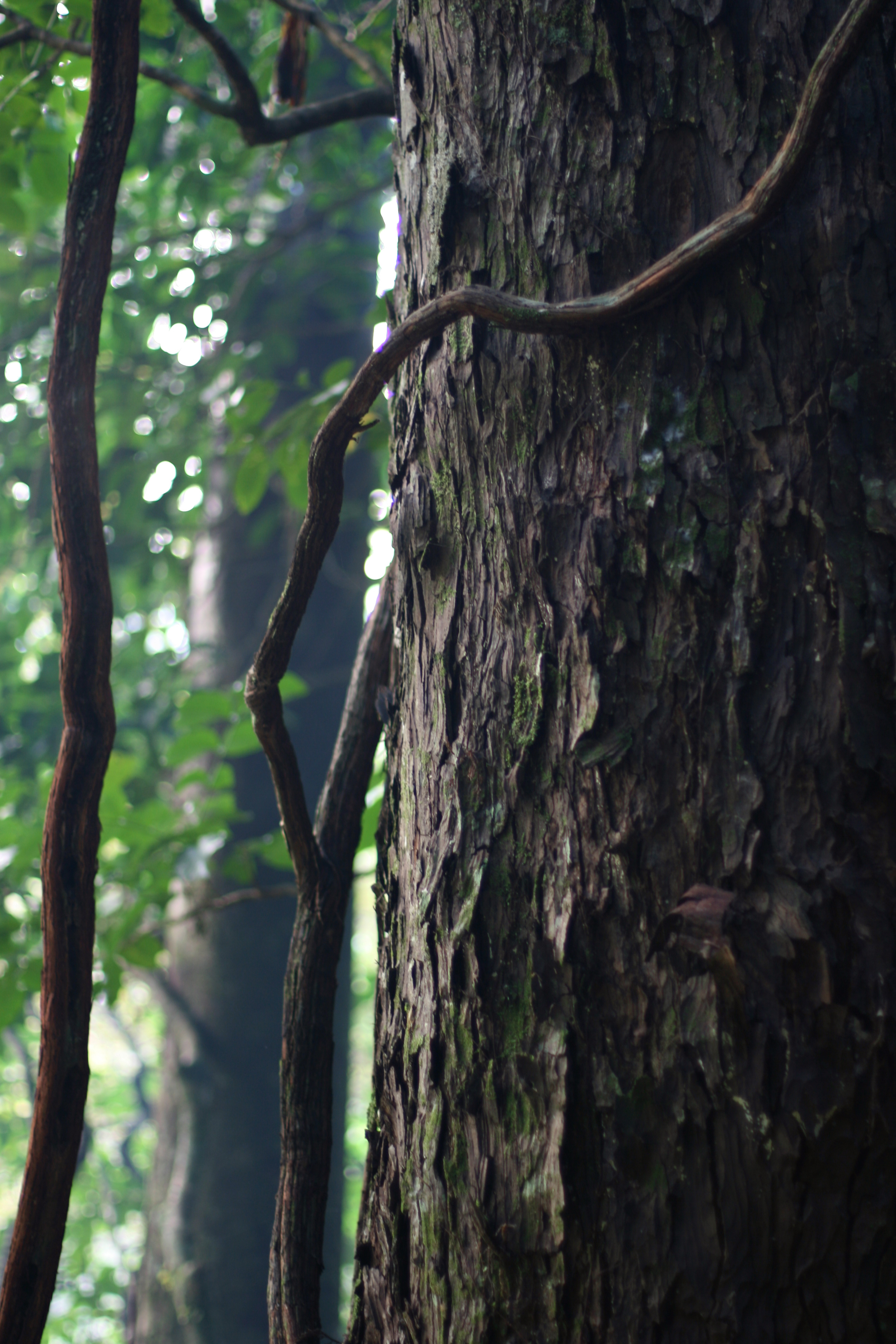 Dacrydium cupressinum, Rimu, in habitat with rata (Metrosideros spp. liana vines, Opua, New Zealand.